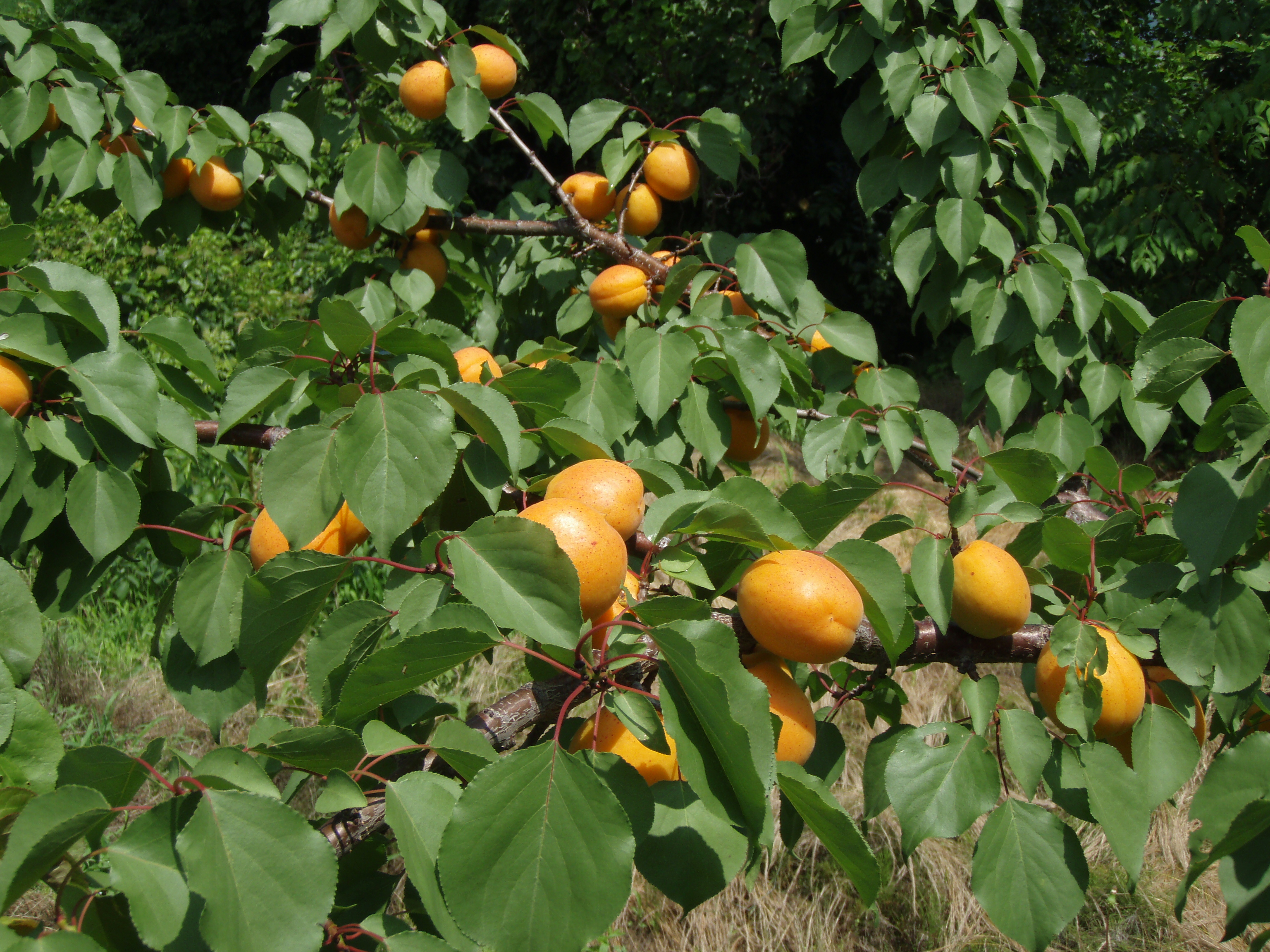 Apricot (Prunus armeniaca)